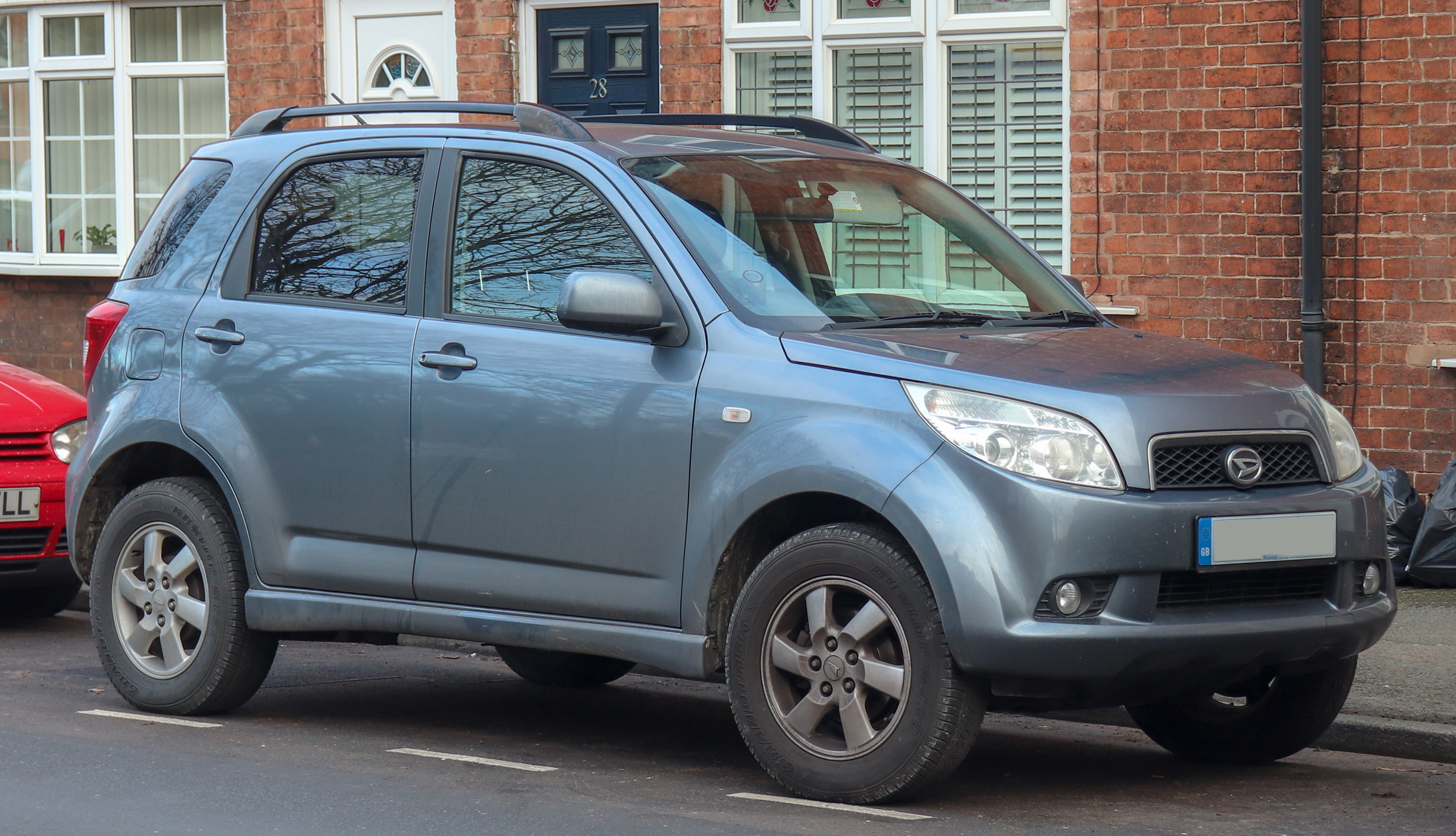 2008 Daihatsu Terios SE 1.5 Front Taken in Warwick